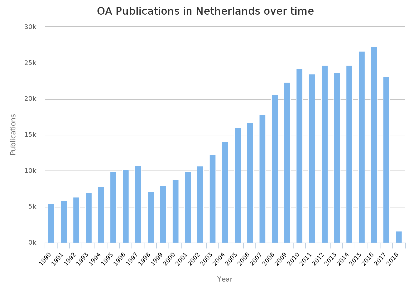 Bar graph describing open access to scholarly communication in the Netherlands